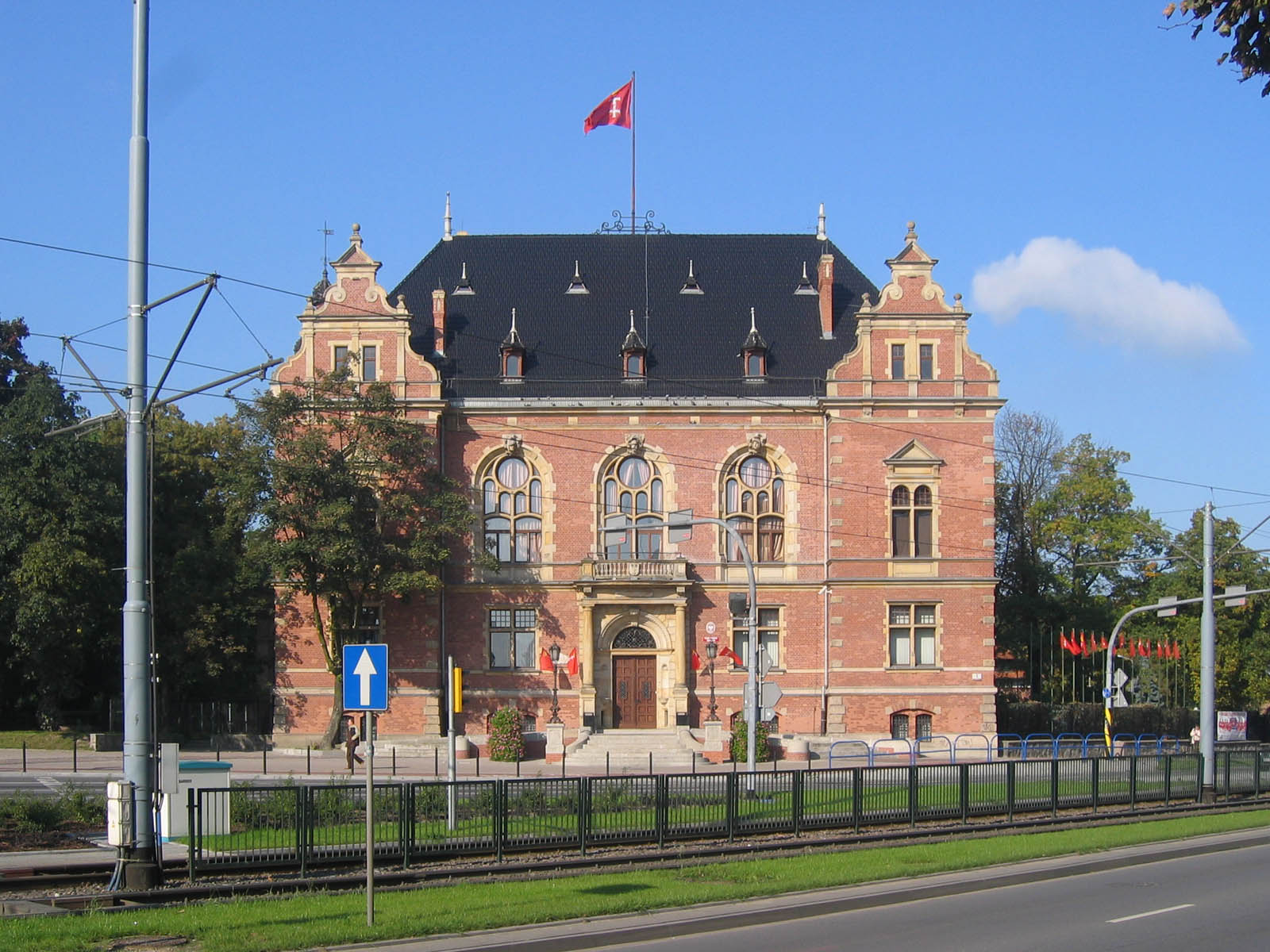 Gdańsk, Poland, the New Town Hall.